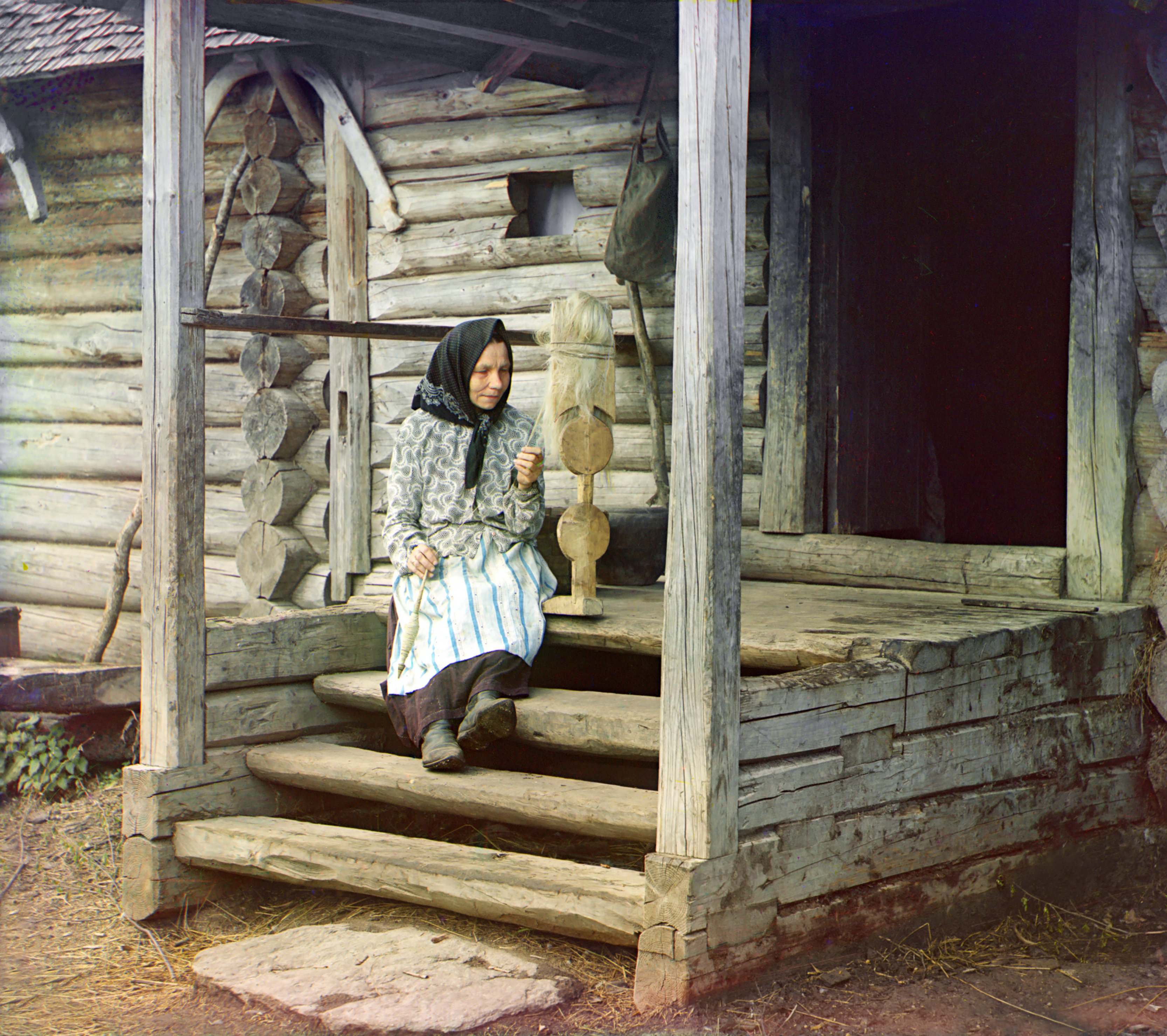 Spinning yarn. In the village of Izvedovo.